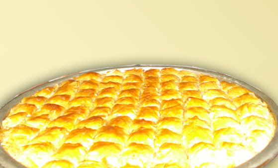 Damat baklavası, a kind of dessert from Turkish cuisine